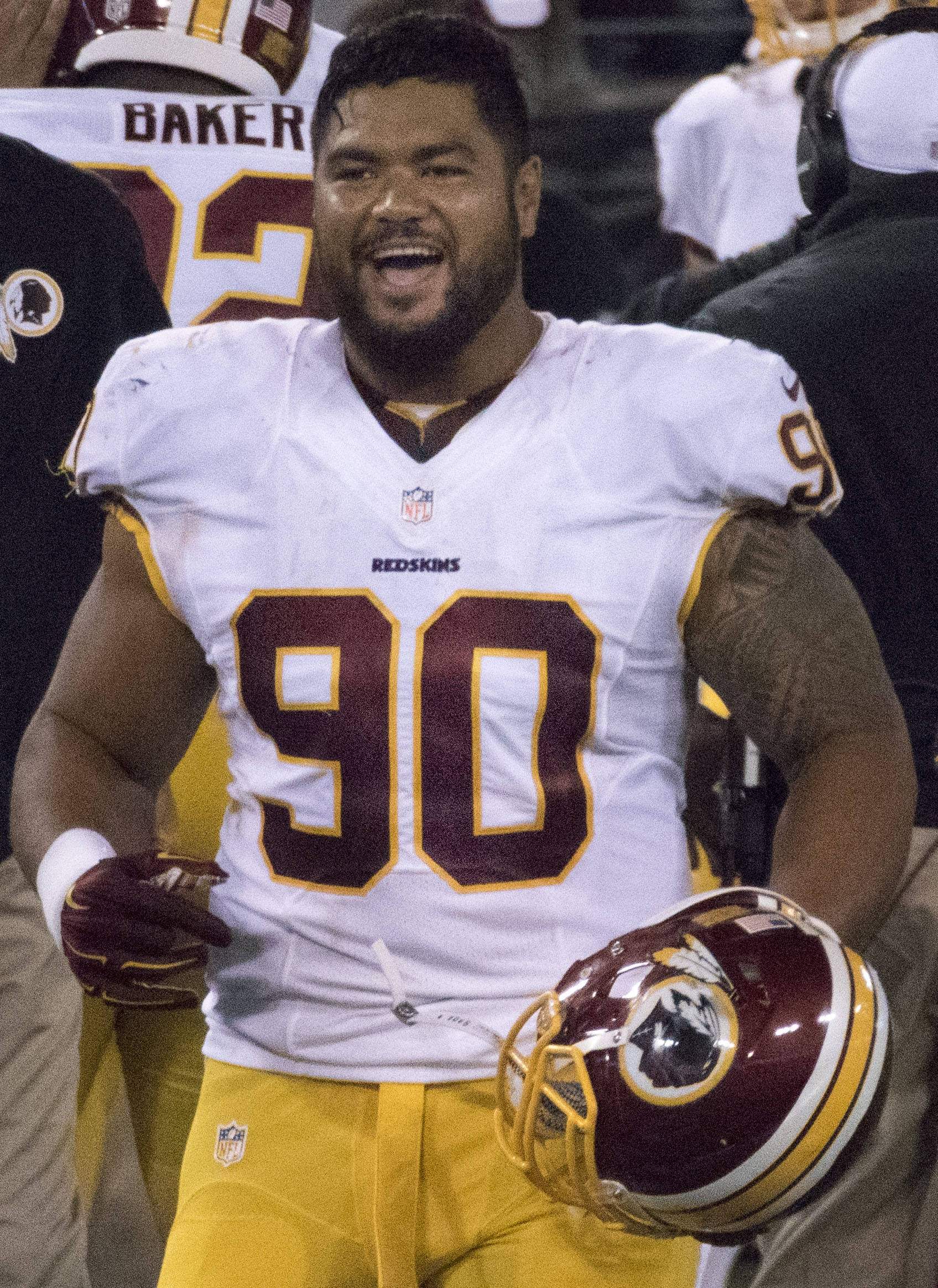 Redskins at Ravens 8/29/15